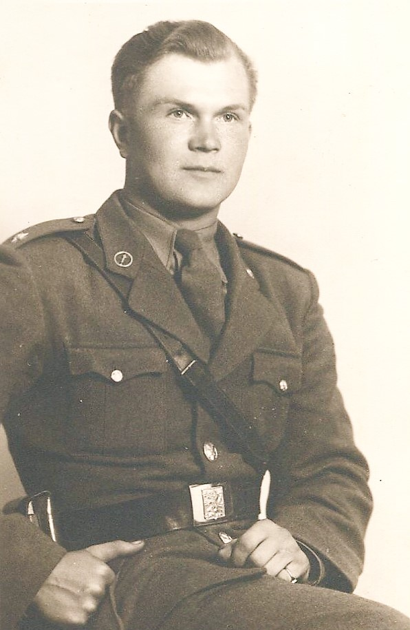 Karel Šerák